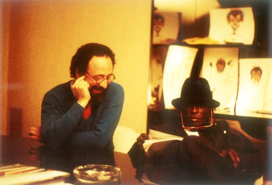 Milano, aprile 1983, Giacomo Pellicciotti e Miles Davis in una pausa di un'intervista